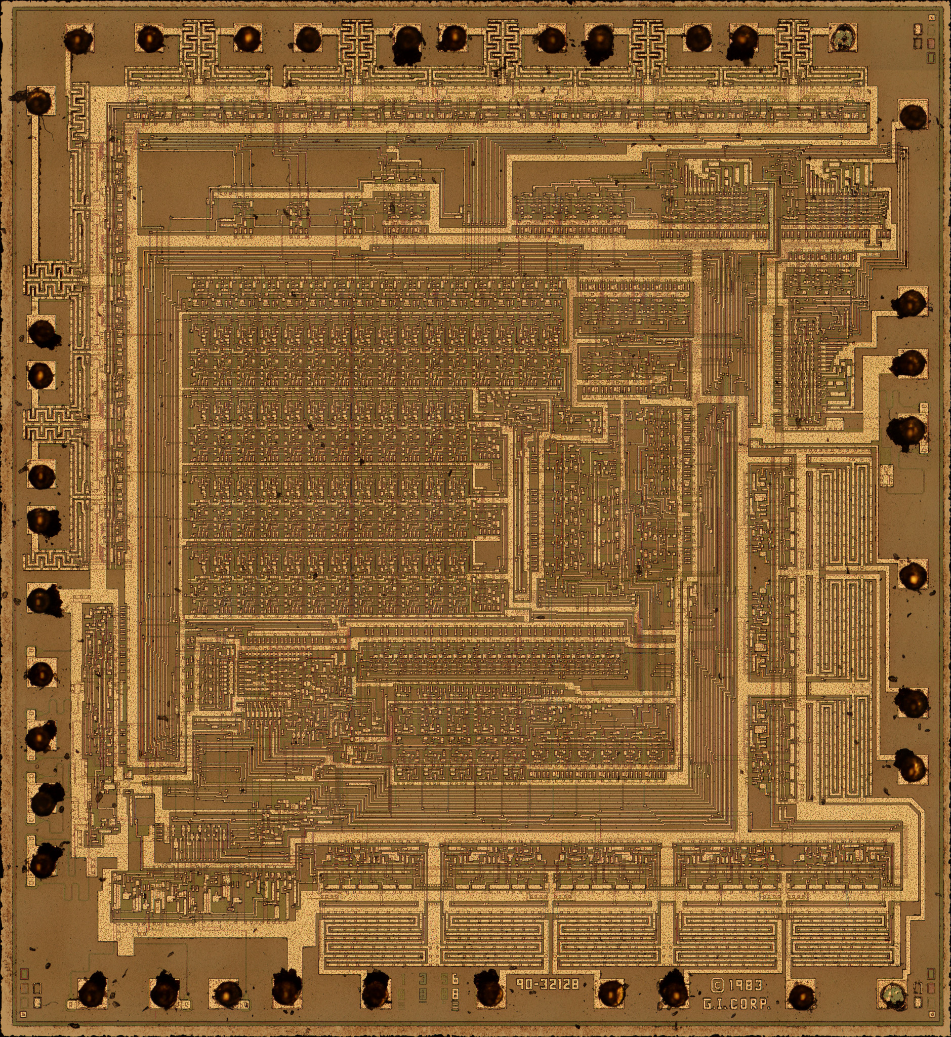 GI AY-3-8910 top metal die shot